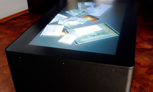 Image of the MT-50 multitouch table.